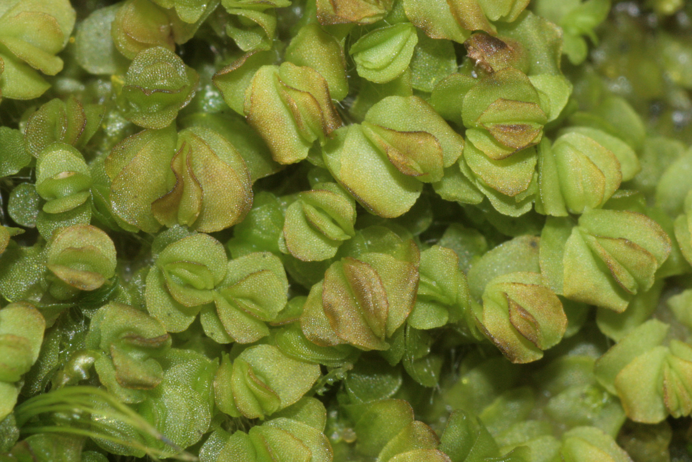 Mylia taylorii